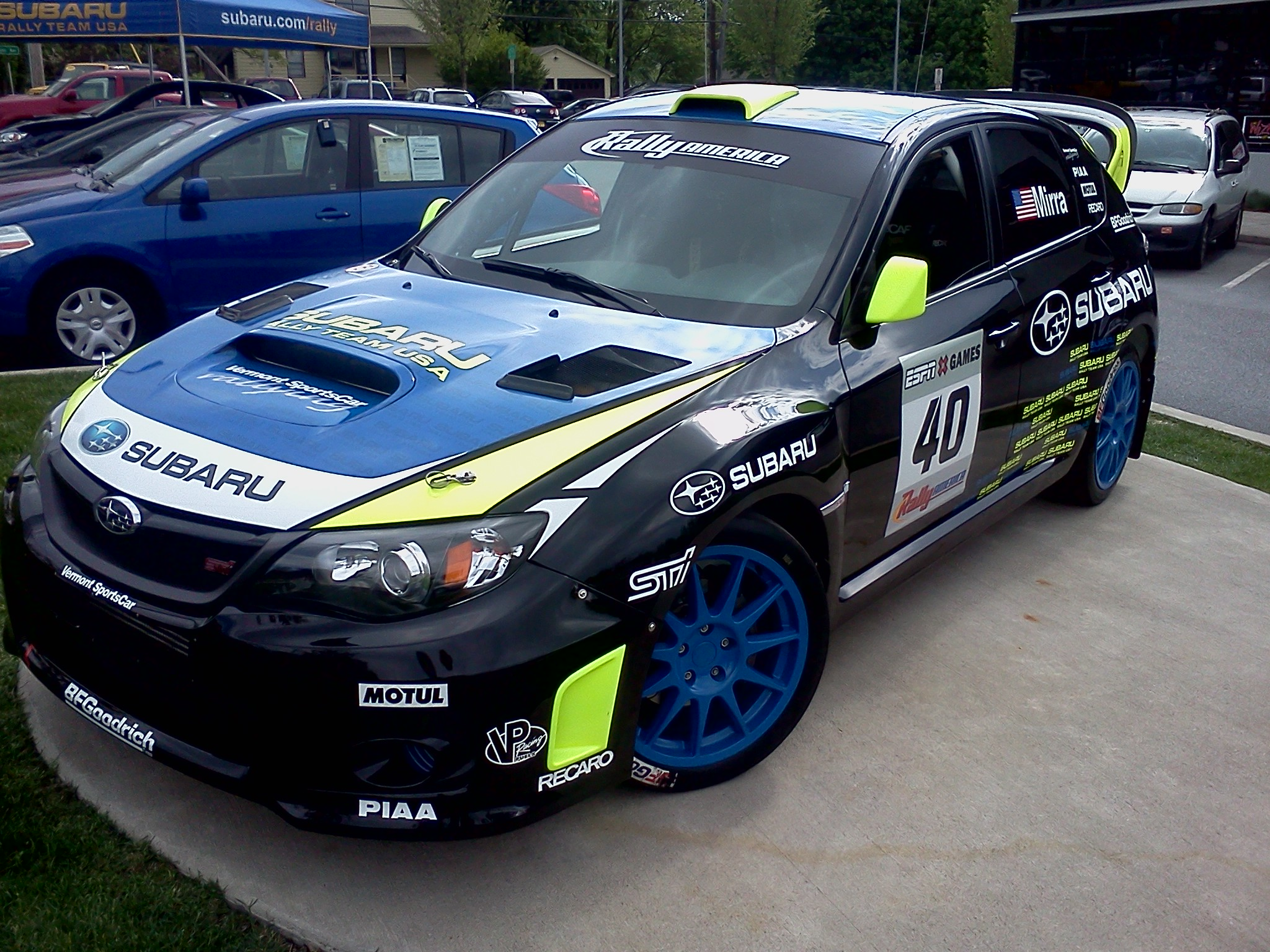 A photo of Dave Mirra's Subaru rally car taken at a promotional event at Burlington Subaru of Burlington Vermont.